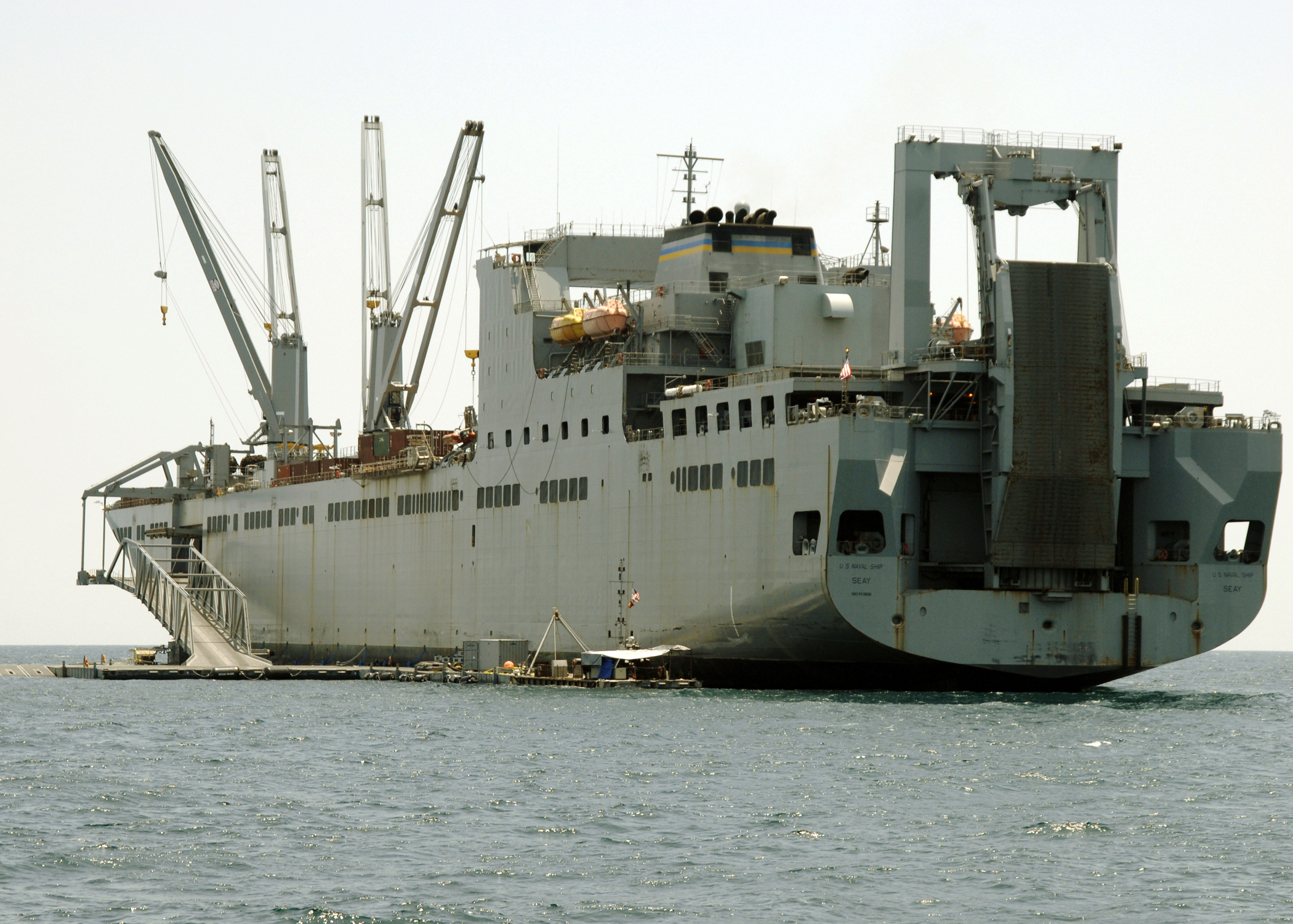 CAMP LEJEUNE, N.C. (June 15, 2009) The Military Sealift Command large, medium-speed roll-on/roll-off ship USNS Seay (T-AKR 302) conducts operations supporting Joint Logistics Over-The-Shore (JLOTS) exercises. JLOTS is a joint operation that consists of loading and unloading ships without fixed port facilities, in friendly or non-defended territories. (U.S. Navy photo by Mass Communication Specialist 2nd Class John Stratton/Released)